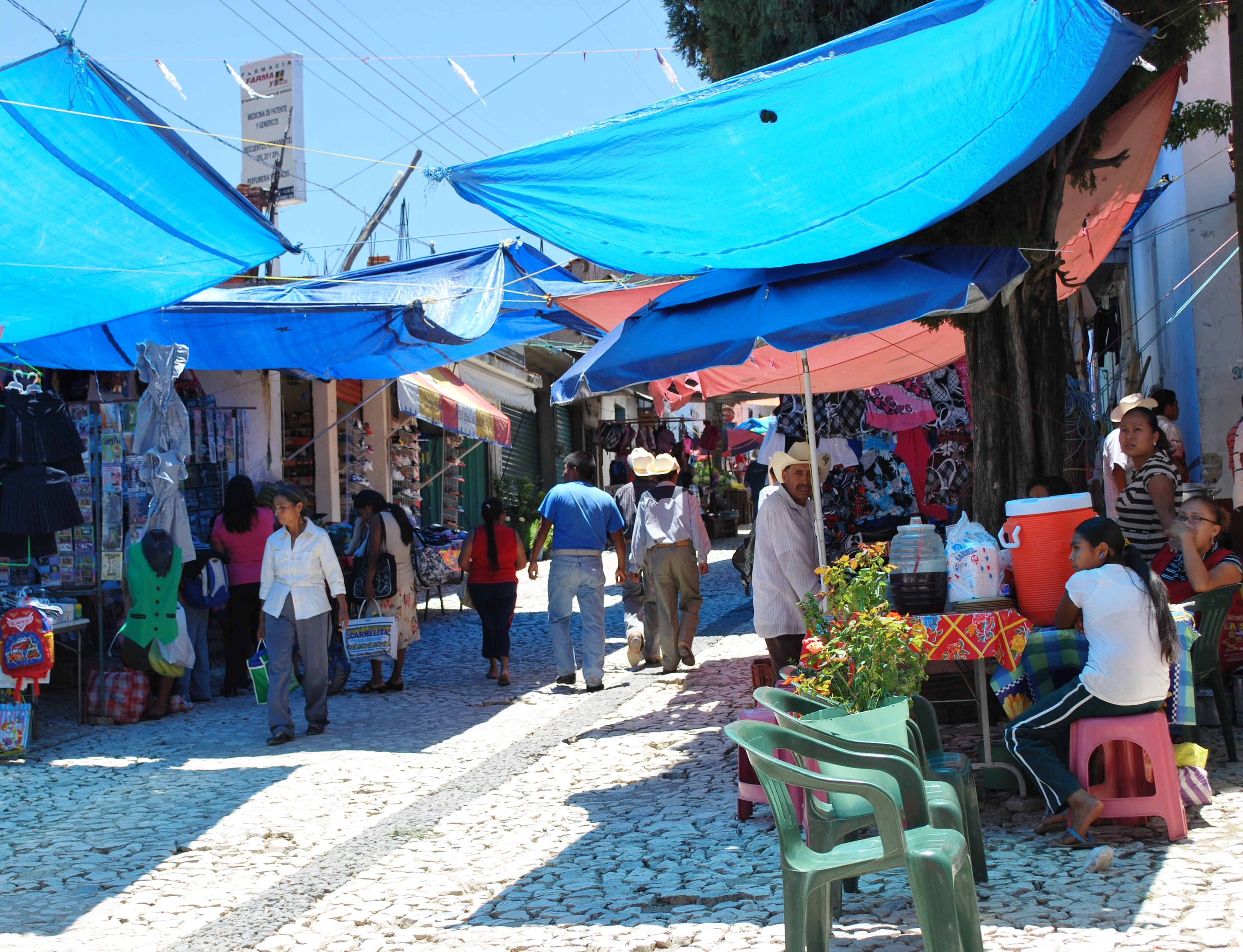 Tianguis (temporary market) in Ixcateopan, Guerrero, Mexico